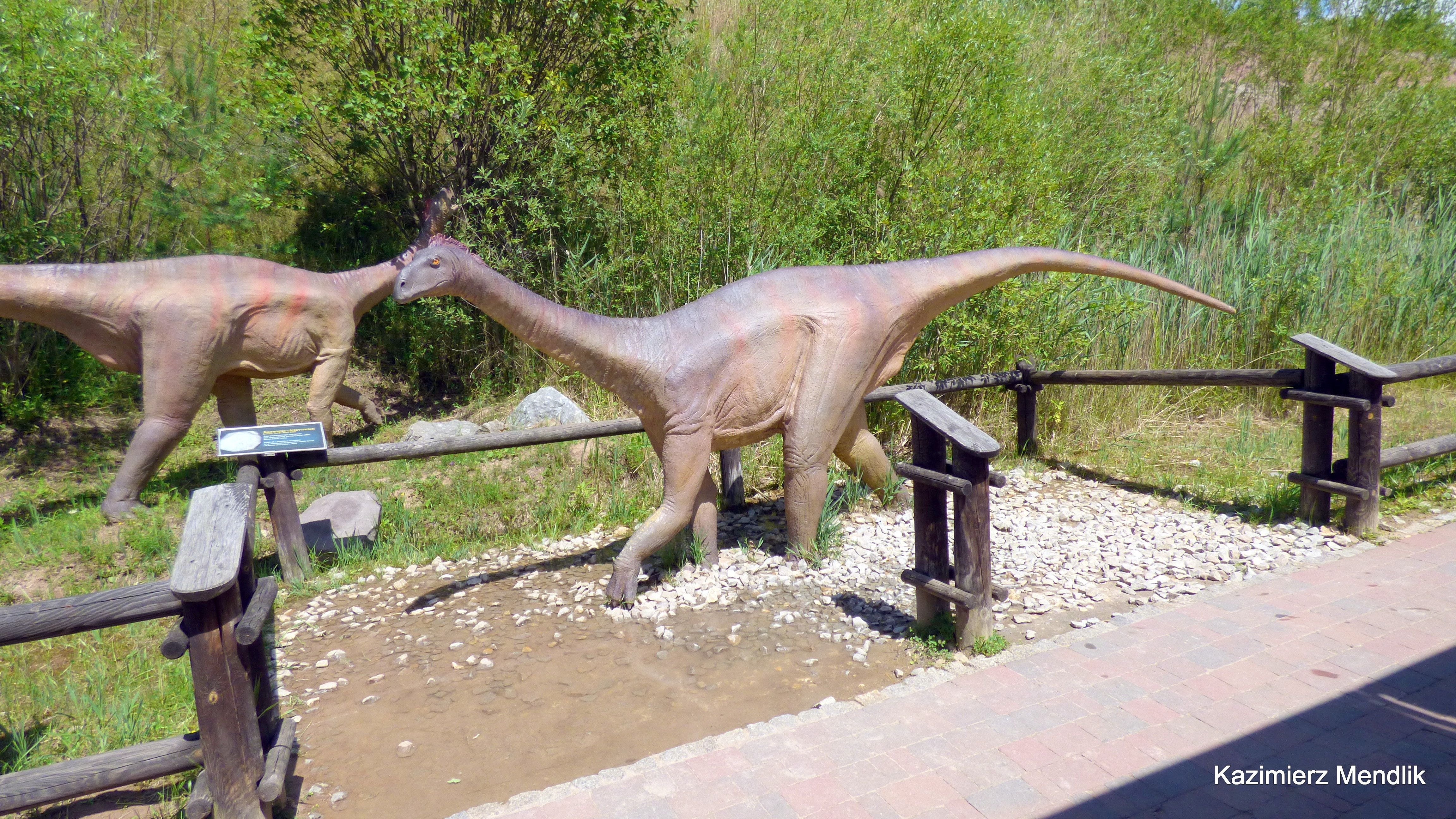 Life-size 3D reconstructions of two individuals of Isanosaurus from the Late Triassic of Thailand, Jura Park Krasiejów, Upper Silesia, Poland